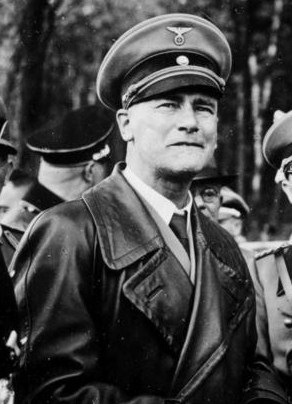 Wihelm Frick, Reich Minister of the Interior in 1938.